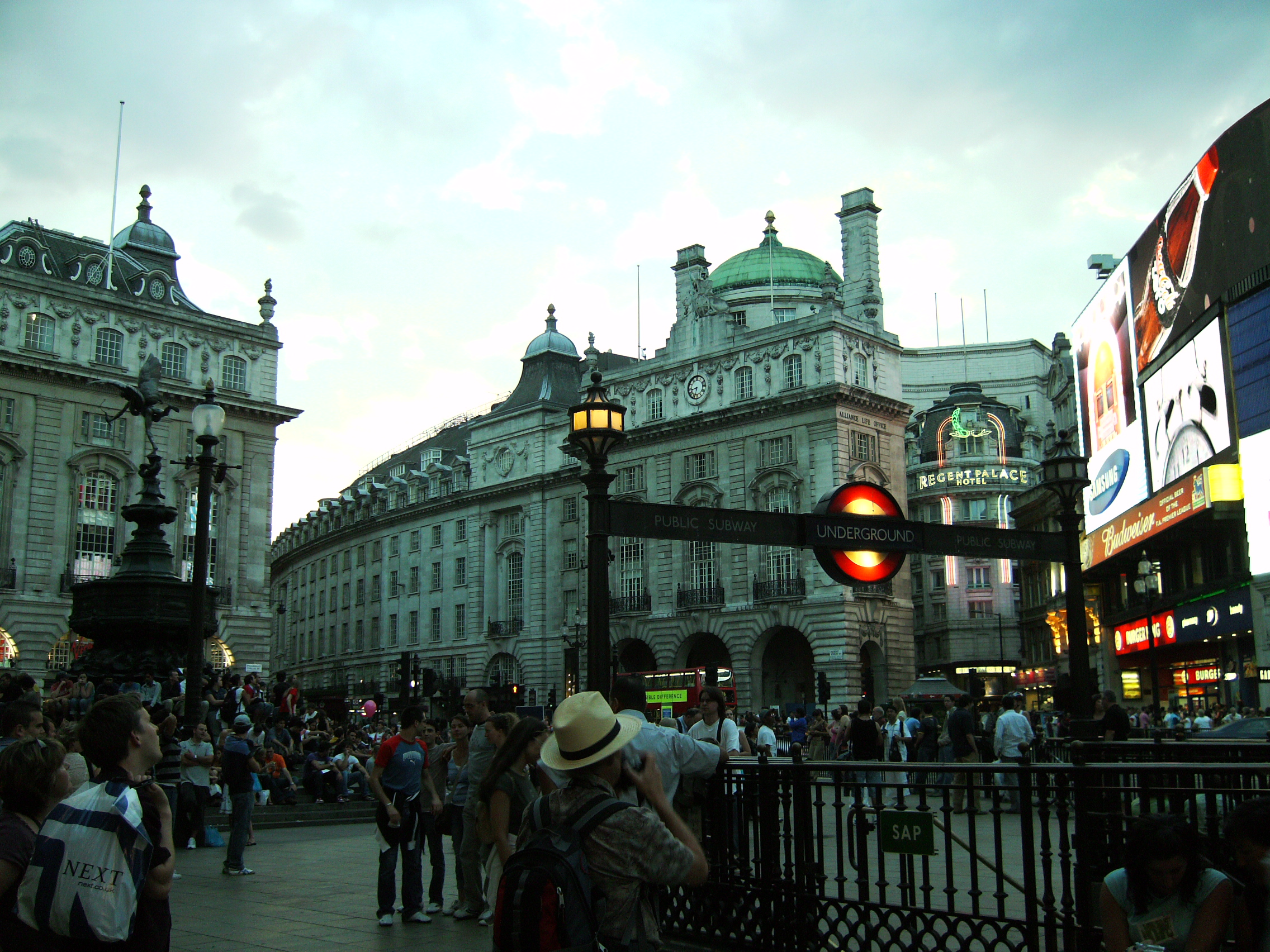 Piccadilly Circus, London at twilight. A tube entrance can be seen as well.